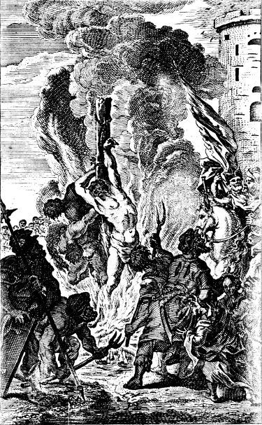 Ignis hostes tuos devoret. Engraving by Jacobus Harrewijn (ca 1720) after a painting/tapestry by (Zeger Jacob?) van Helmont